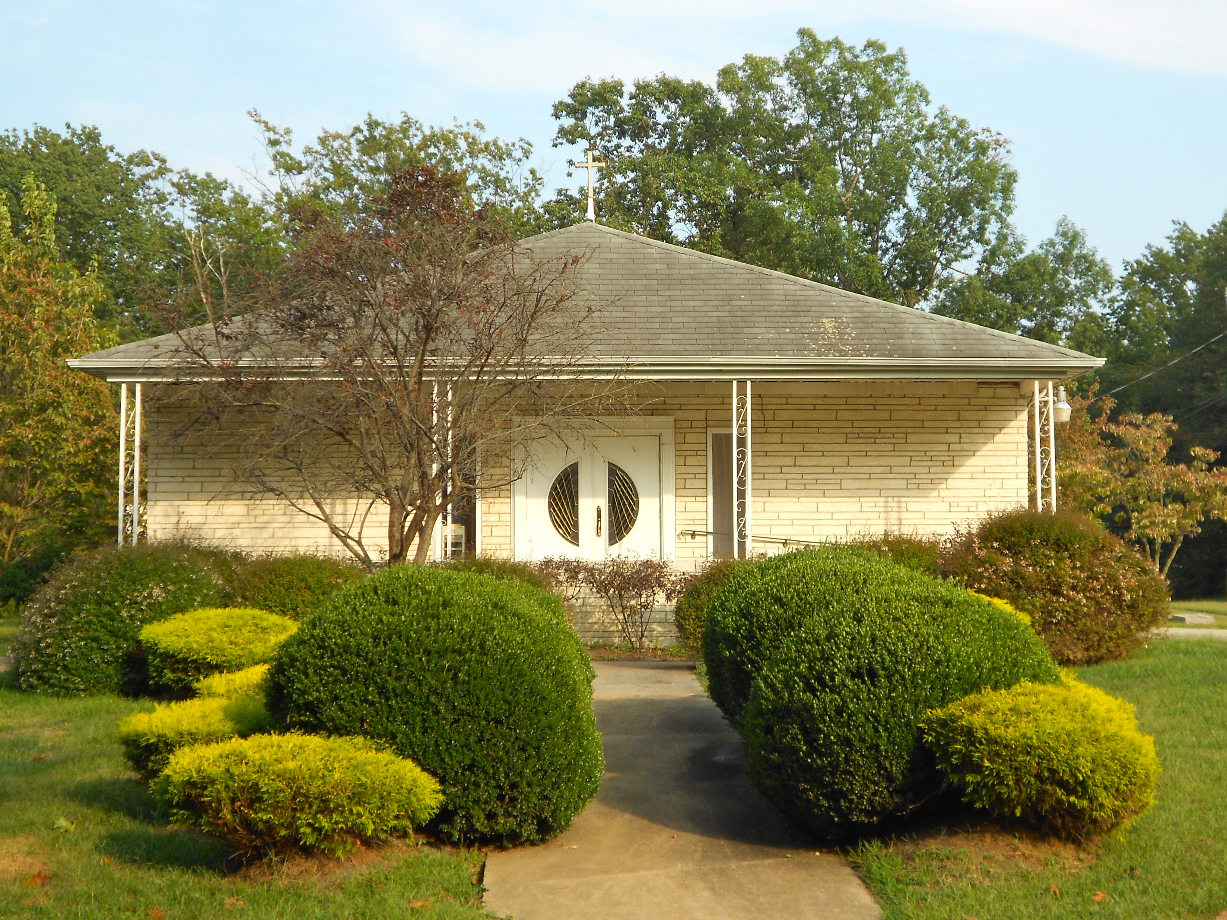 Grant A.M.E. Church was listed on the NRHP on October 5, 1977. At 4th and Washington Sts., Chesilhurst, Camden County, New Jersey. The original church was built in 1896 and this one is obviously a replacement built in the 1970s or 1980s from the style. This is the NE corner, a house is on the SE corner and nothing on the other 2 corners